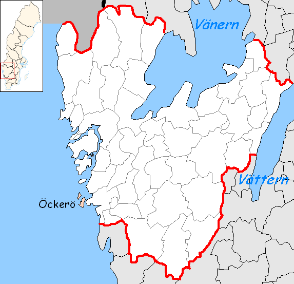 Öckerö Municipality in Västra Götaland County Designed by me. Mere outlines are a PD source from